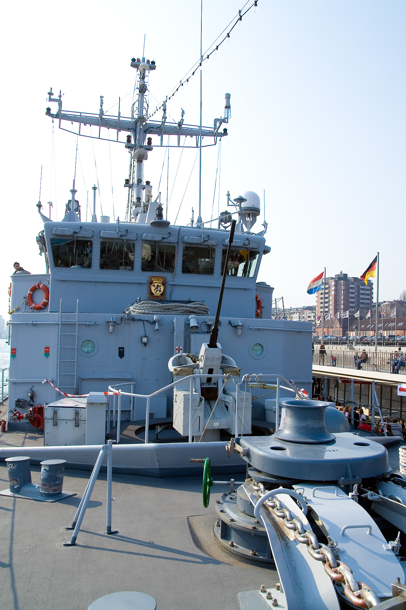 20 mm modèle F2 gun on the forecastle of the minehunter HNLMS Schiedam (M 860) of the Royal Netherlands Navy.